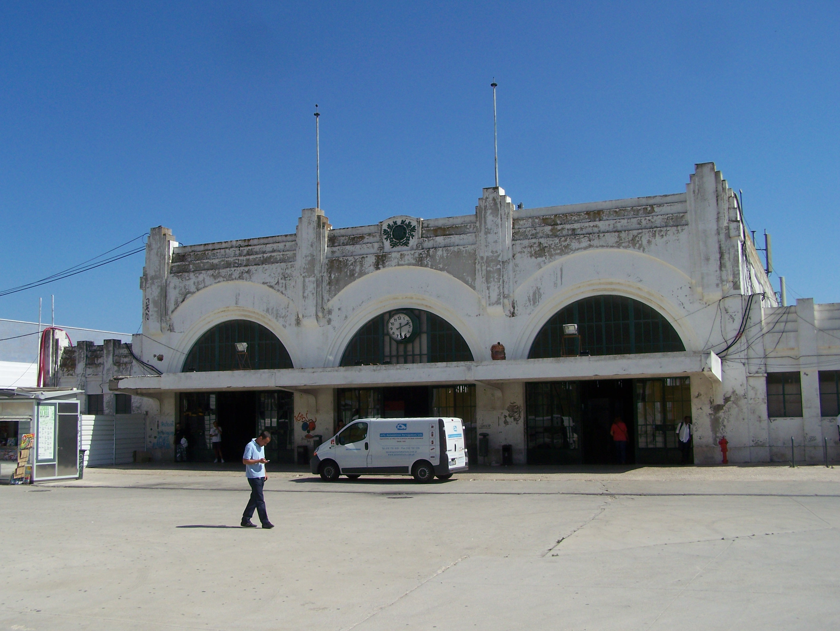 South and Southeast train station / boat terminal in Lisbon, Portugal